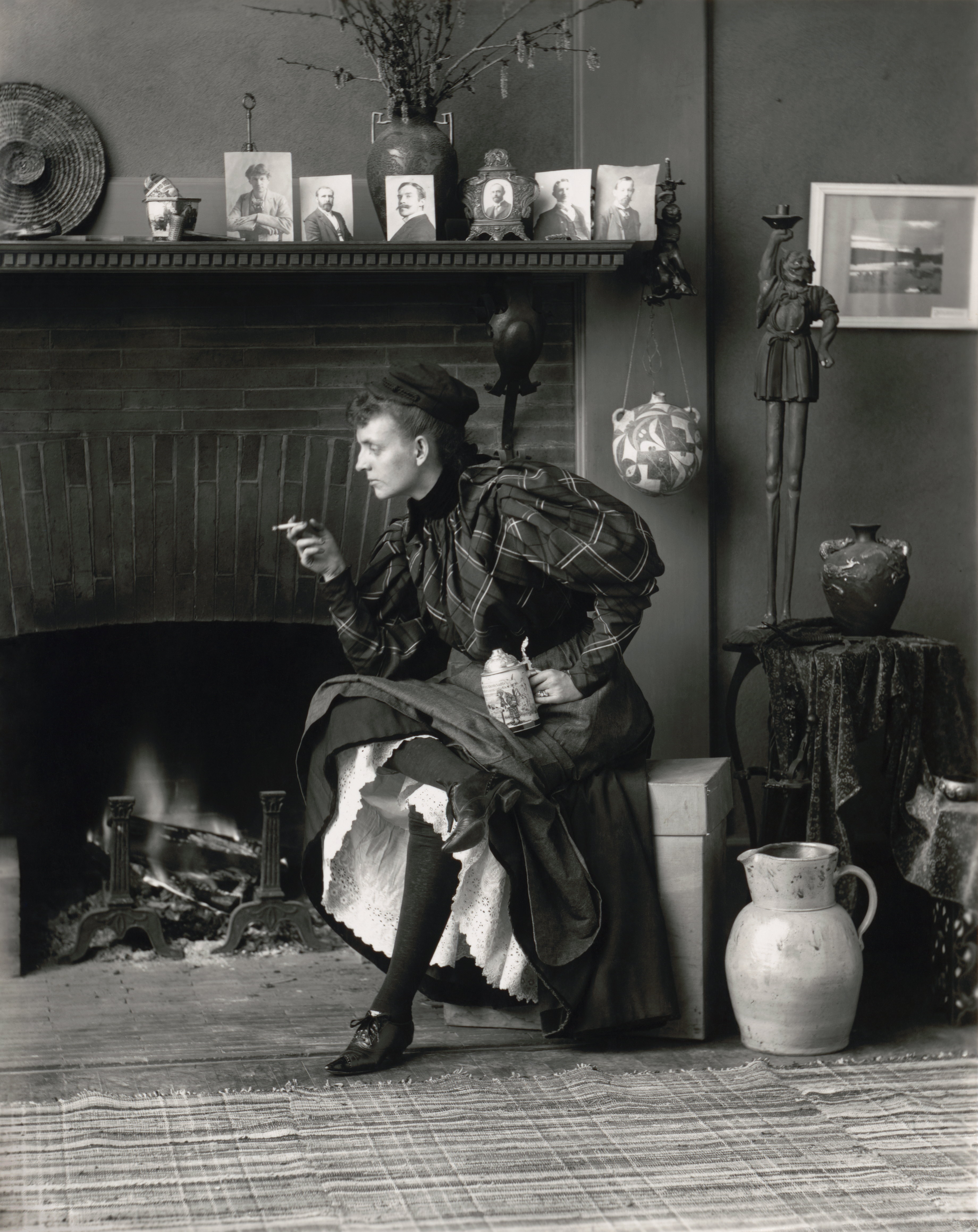 Frances Benjamin Johnston's Self-Portrait (as "New Woman"), a full-length self-portrait of her seated in front of fireplace, facing left, holding cigarette in one hand and a beer stein in the other, in her Washington, D.C. studio